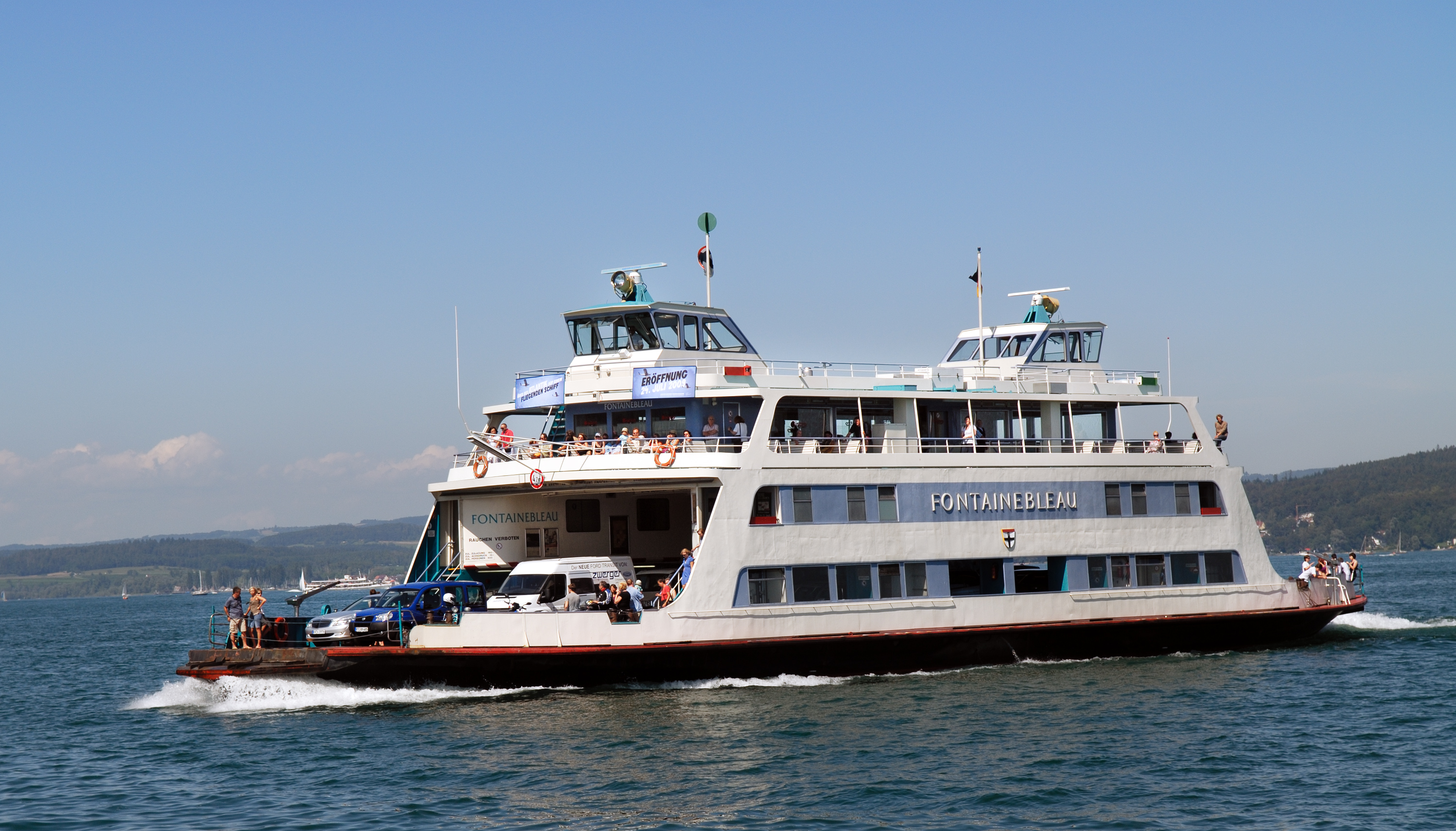 This image shows the ferry "Fontainebleau" at the Lake Constance.